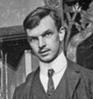 French actor Pierre Renoir (1885-1952) circa 1902